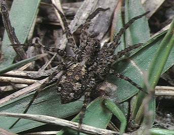 female Pardosa oriens from Okinawa.